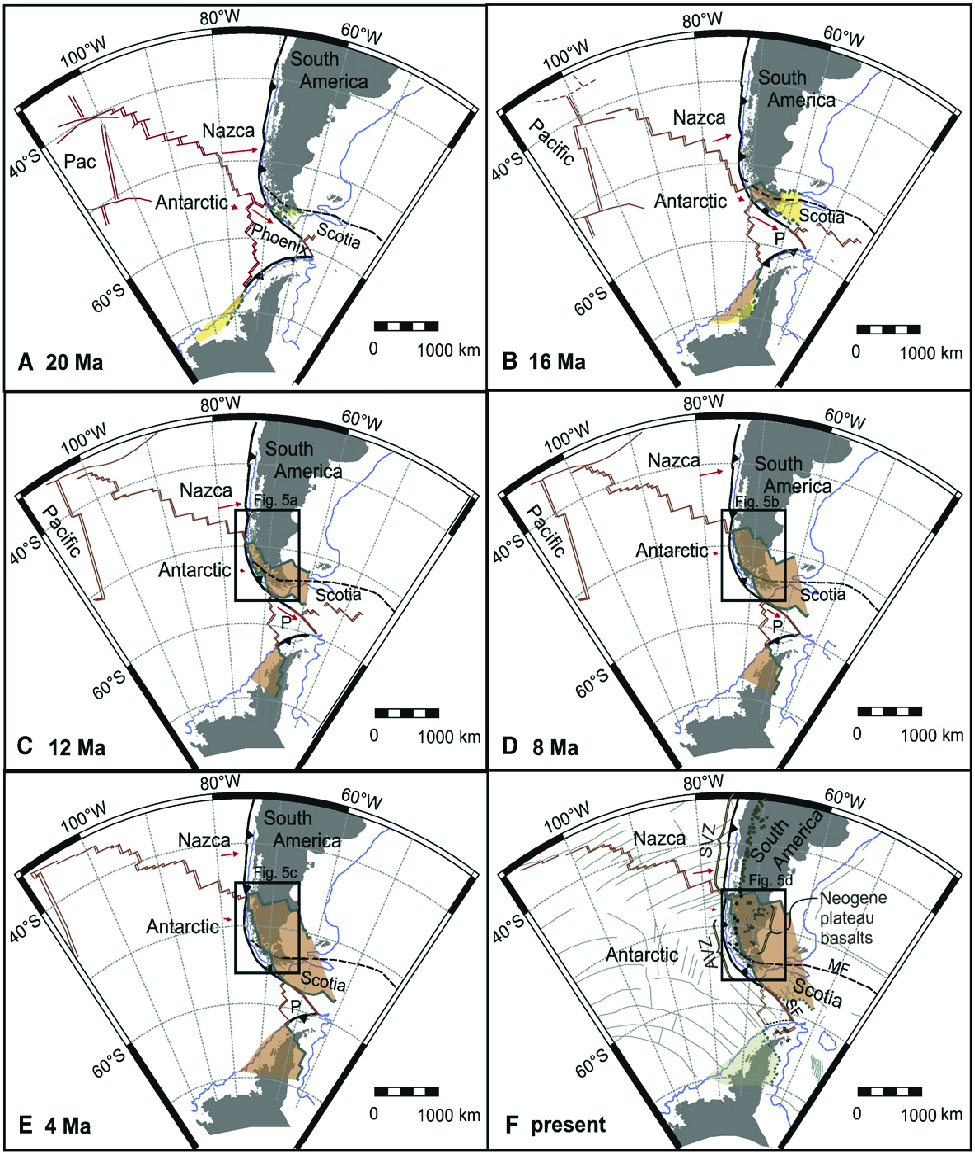 Antarctic Peninsula tectonic history. 20Ma-Present.